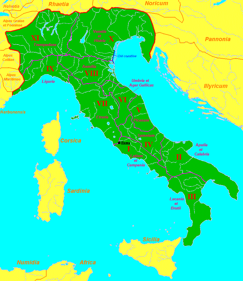 Map of Roman Italy (green) and surrounding provinces (orange), showing its division in 11 regiones, with their names. Sources: partly based in maps of the University of Oregon [1], [2] and several maps and data of Wikipedia.